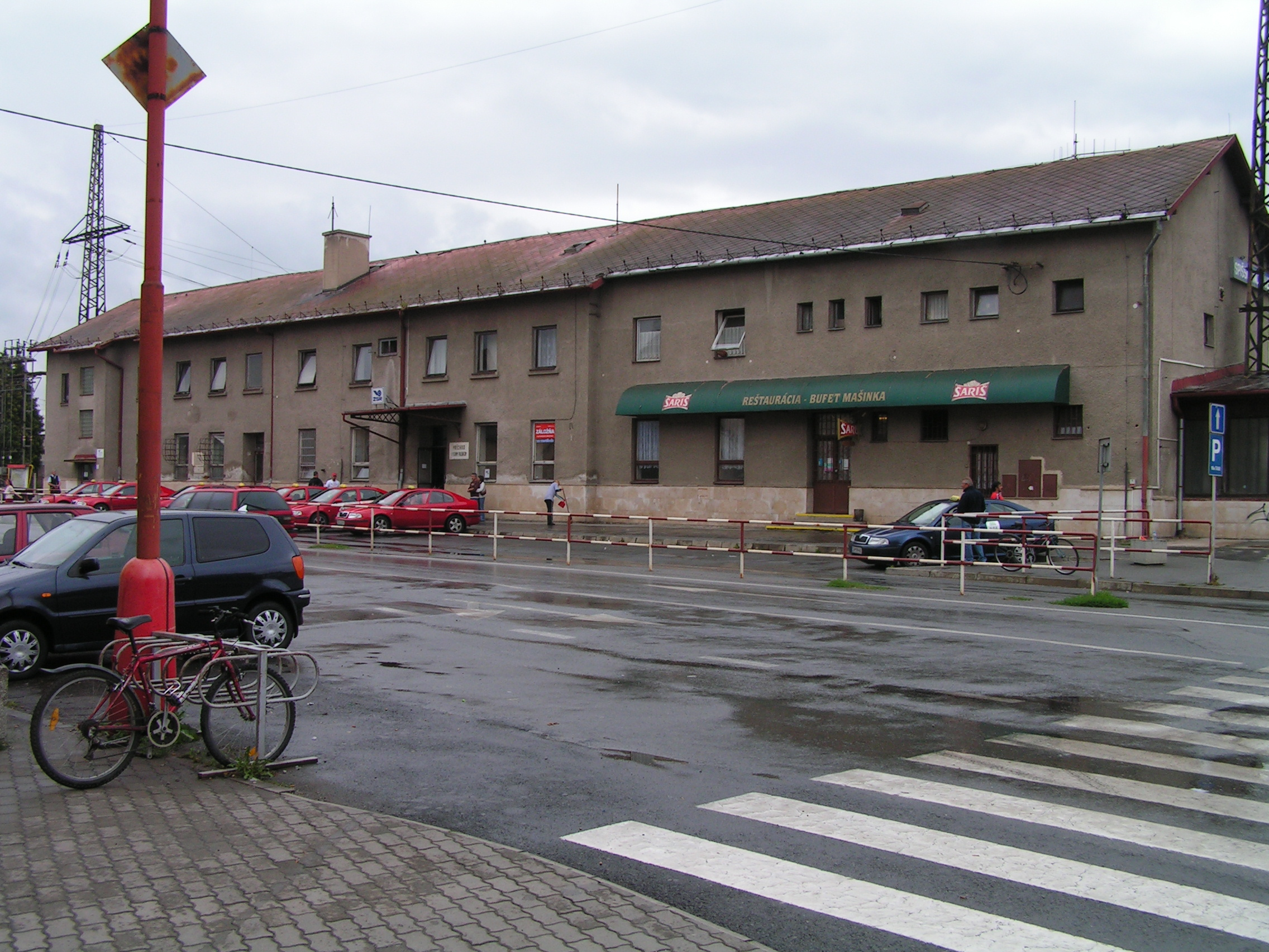 Spišská Nová Ves - railway station Česky: Spišská Nová Ves - nádraží